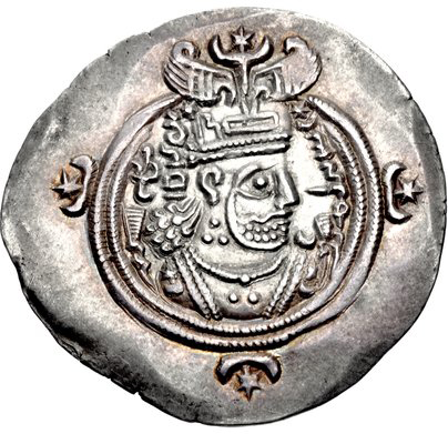 Coin of Hormizd VI.